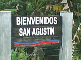 Road sign, wellcome to San Agustín